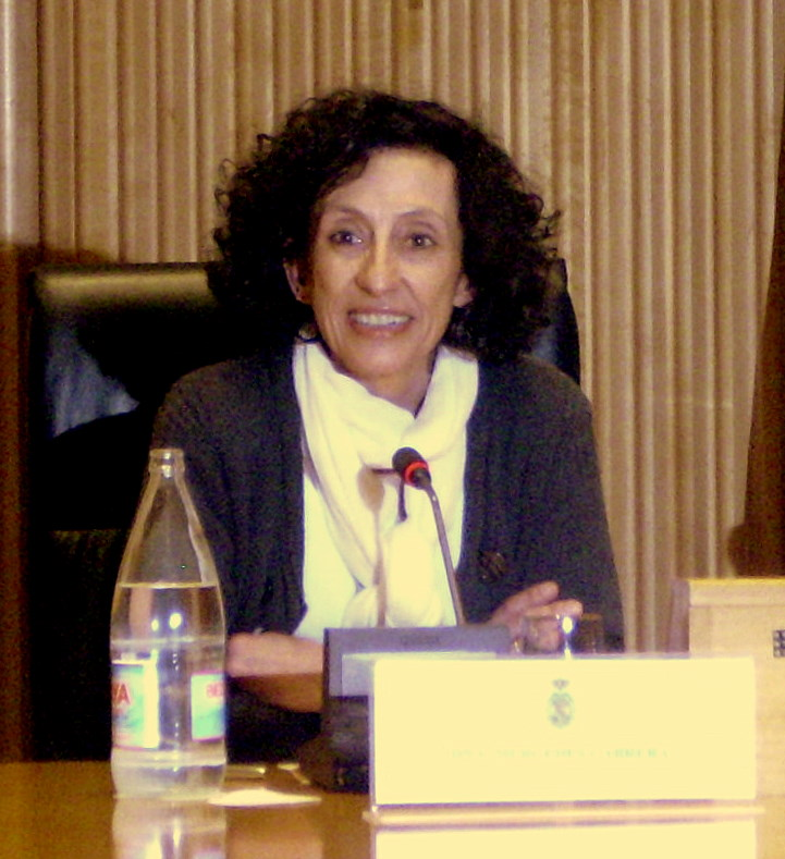 Mercedes Cabrera, Minister of Education and Science, in the Spanish Congress